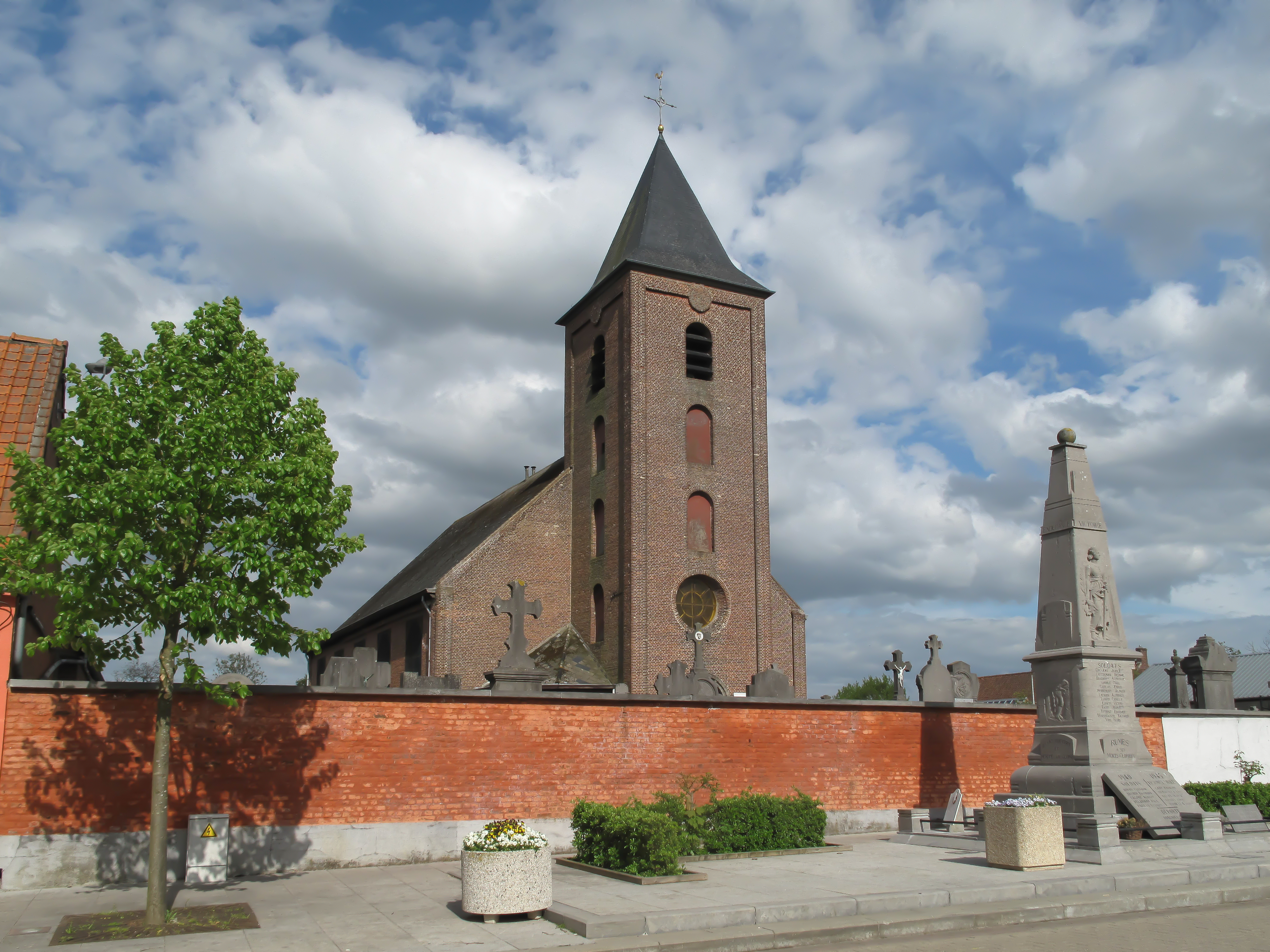 Rumes, church: l'église Saint Pierre